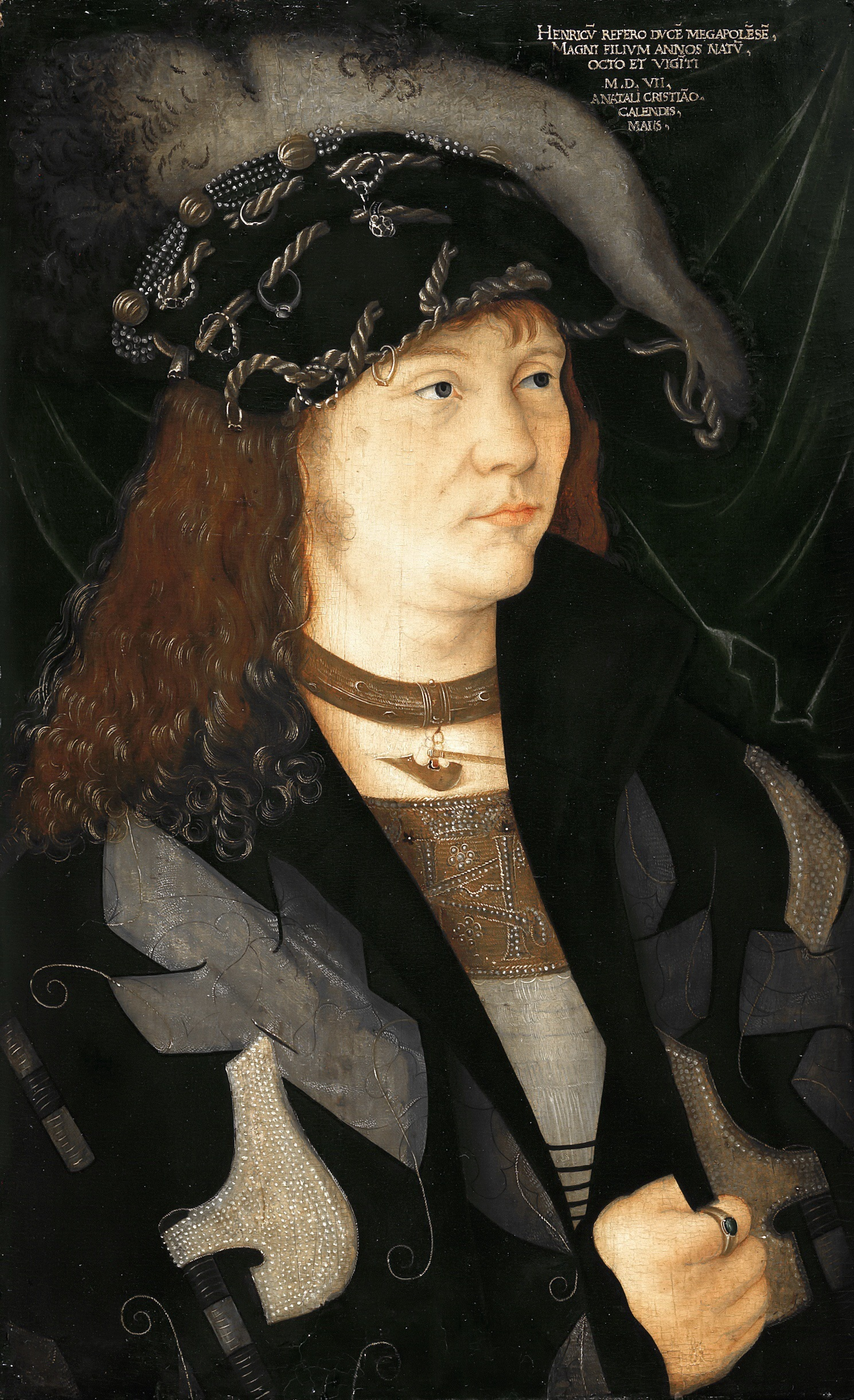 Henry’s cloak has a pattern of battleaxes and pieces of the Ragged Staff of the Cross of Burgundy. ( There is also an axe hanging on his chain. Yet Henry’s nickname was ‘the Peaceful’. His hat is decorated with ostrich feathers, strings of pearls and cords with golden rings. Although it looks rather eccentric, Henry’s outfit was the height of fashion among the German nobility of the day.